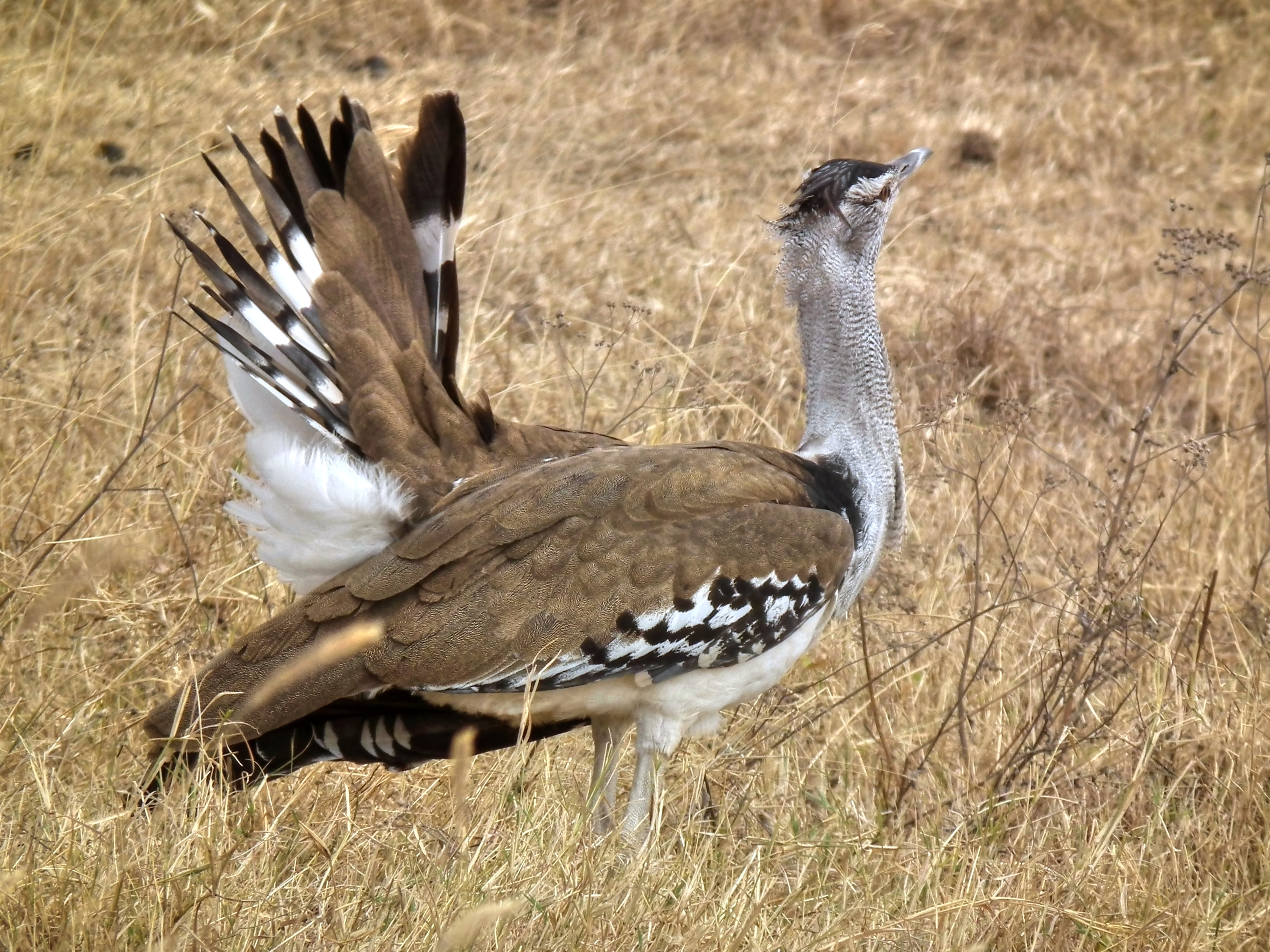 Kori Bustard (Ardeotis kori) in Tanzania